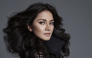 A close-up shot of Fazura